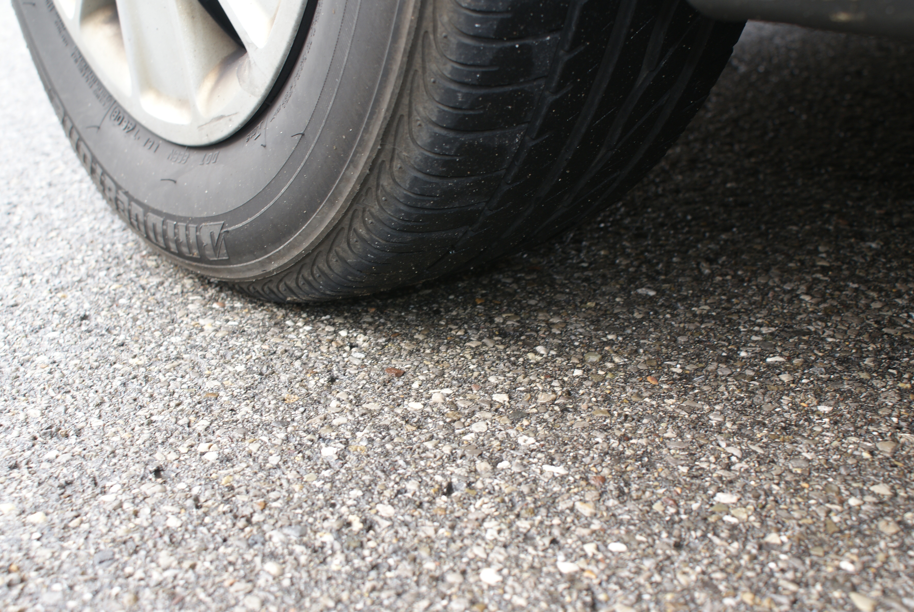 Tire on Asphalt